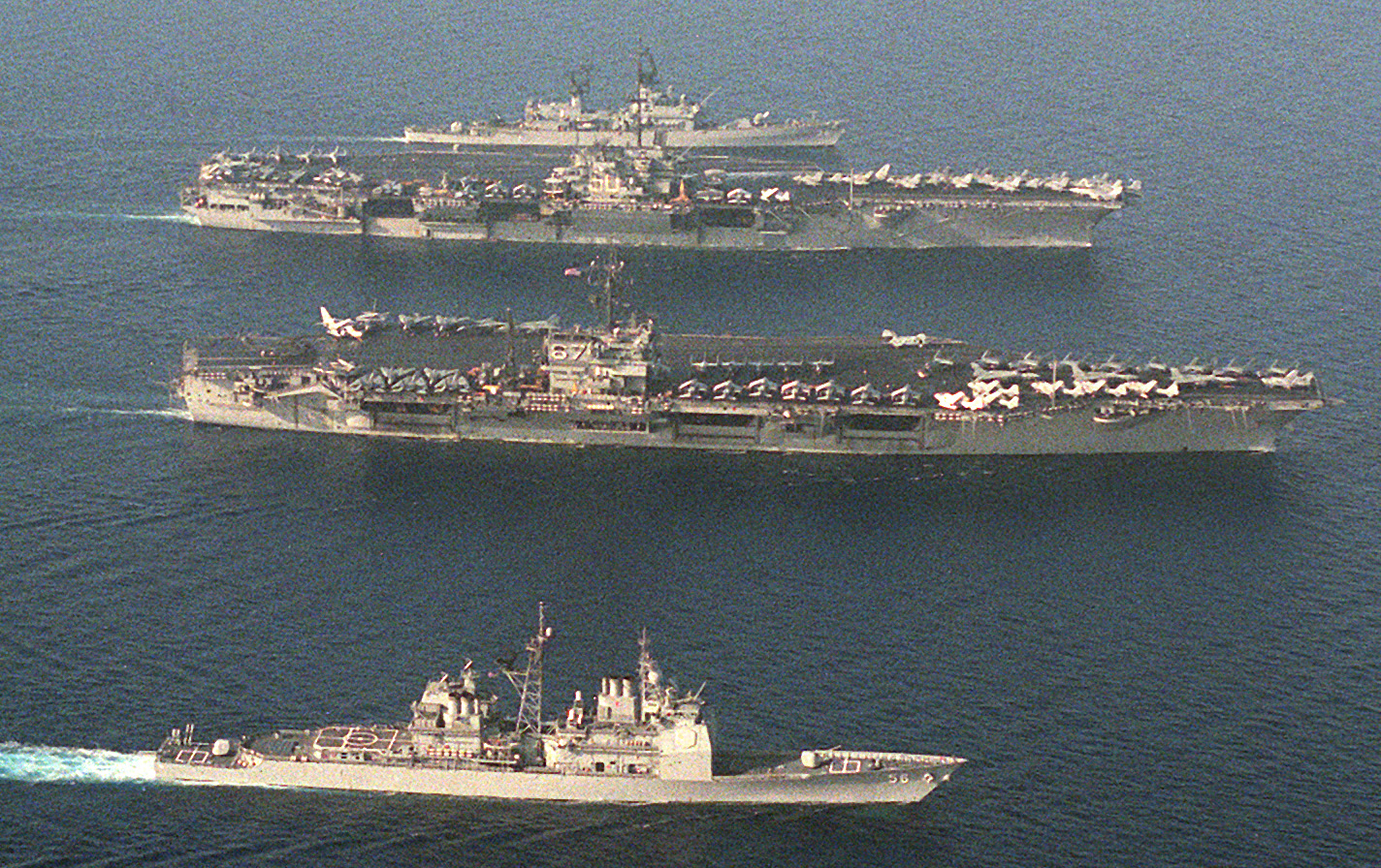 (Cropped) An aerial view of, from bottom to top, the guided missile cruiser USS SAN JACINTO (CG-56), the aircraft carriers USS JOHN F. KENNEDY (CV-67) and USS SARATOGA (CV-60) and the guided missile cruiser USS BIDDLE (CG-34) underway.